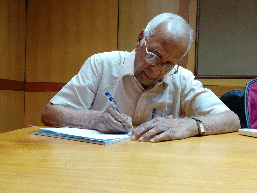 He has been a nuclear disarmament advocate, pacifist and gandhian